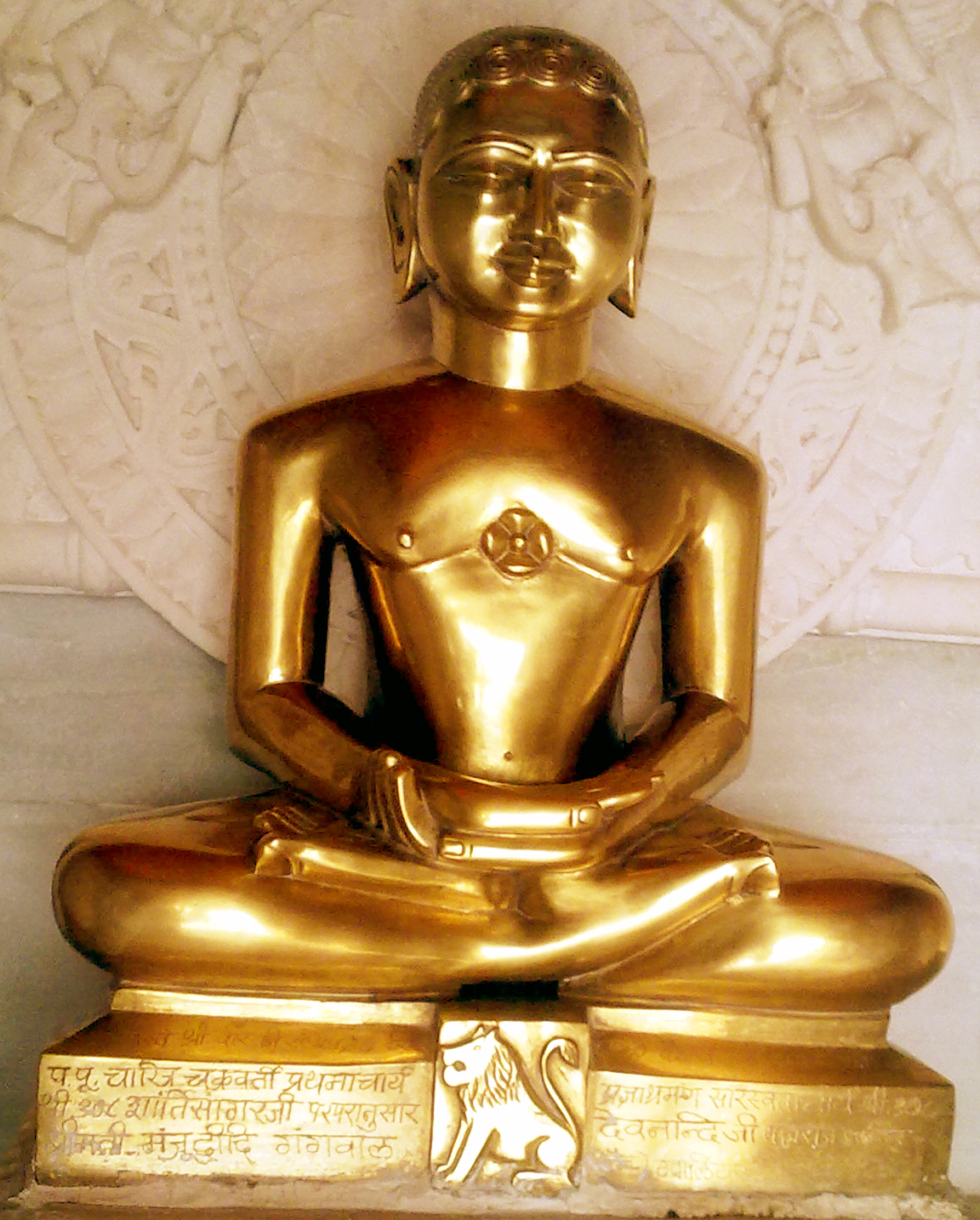 Shri 1008 Mahaveer Bhagwan totally made in metal